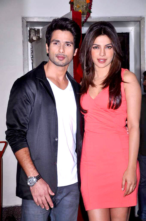 Shahid Kapoor, Priyanka Chopra promote 'Teri Meri Kahaani' on the sets of DID Lil Masters, DID Lil Masters 2012